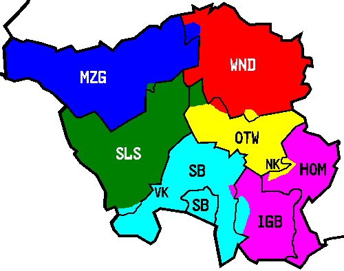 Districts in Saarland before and after the reform of 1974